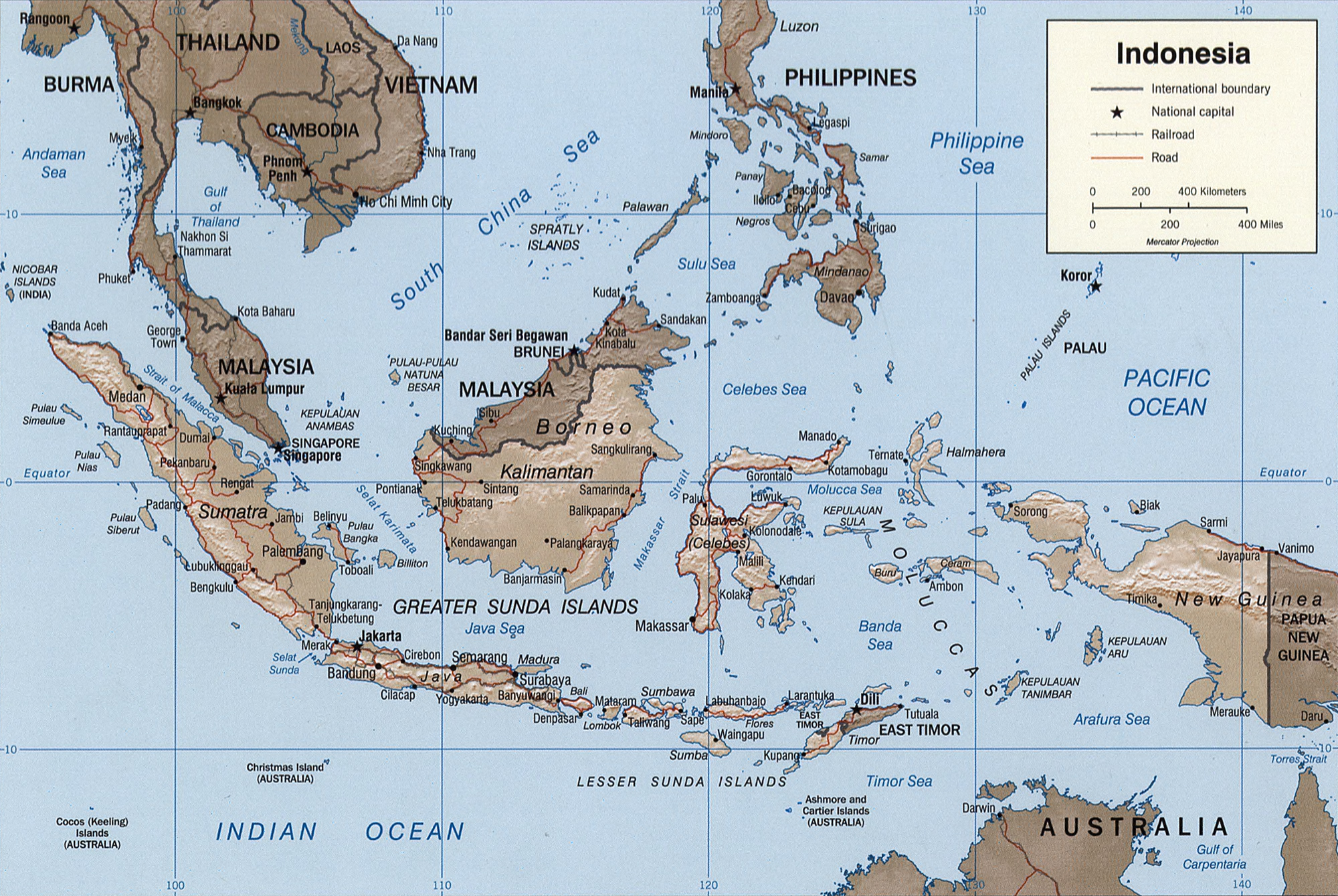 Map of Indonesia.